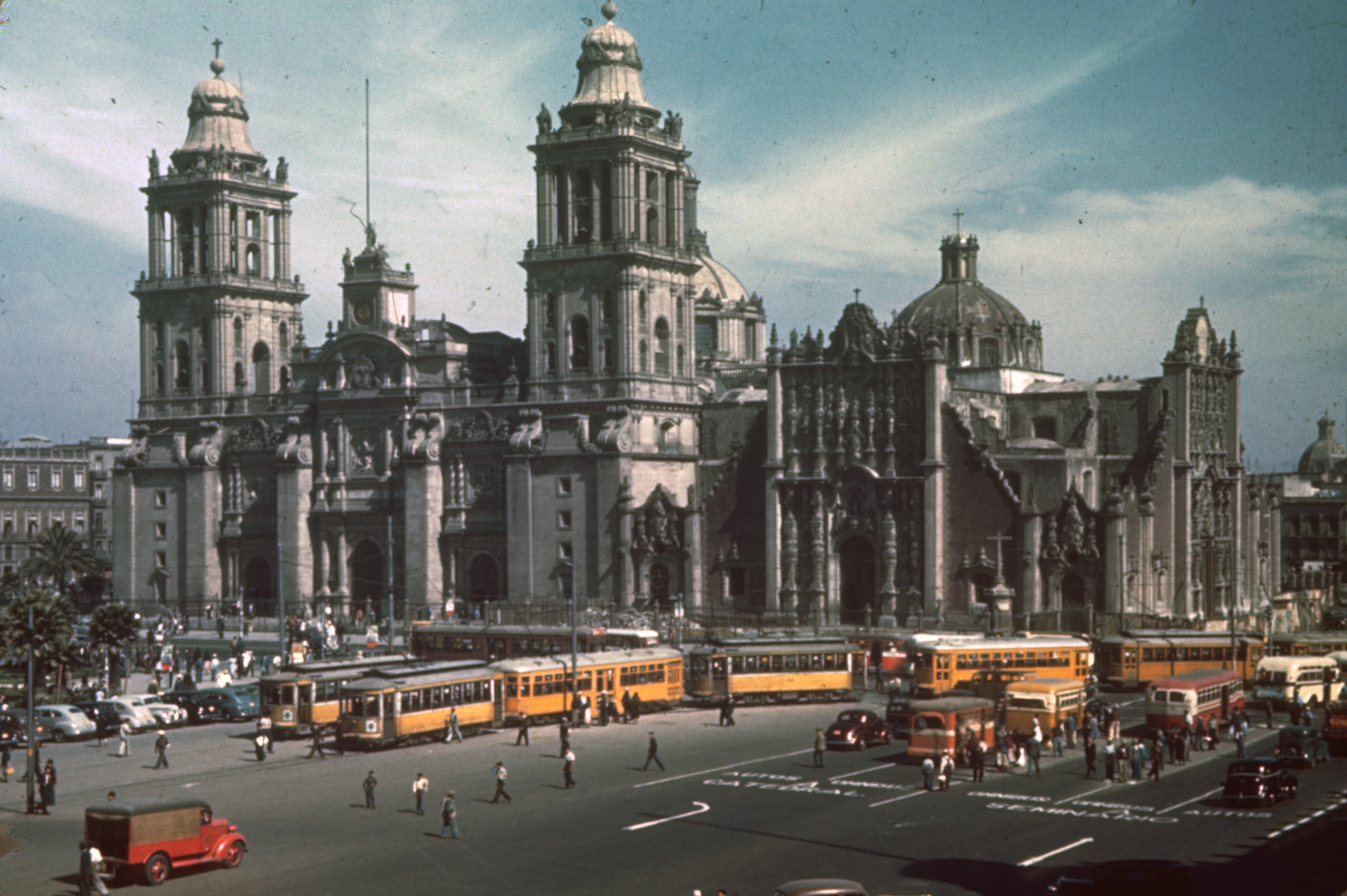 Cathedral, Mexico City. Use this image as needed, but for uses other than personal, please credit as "Photo by Chalmers Butterfield".